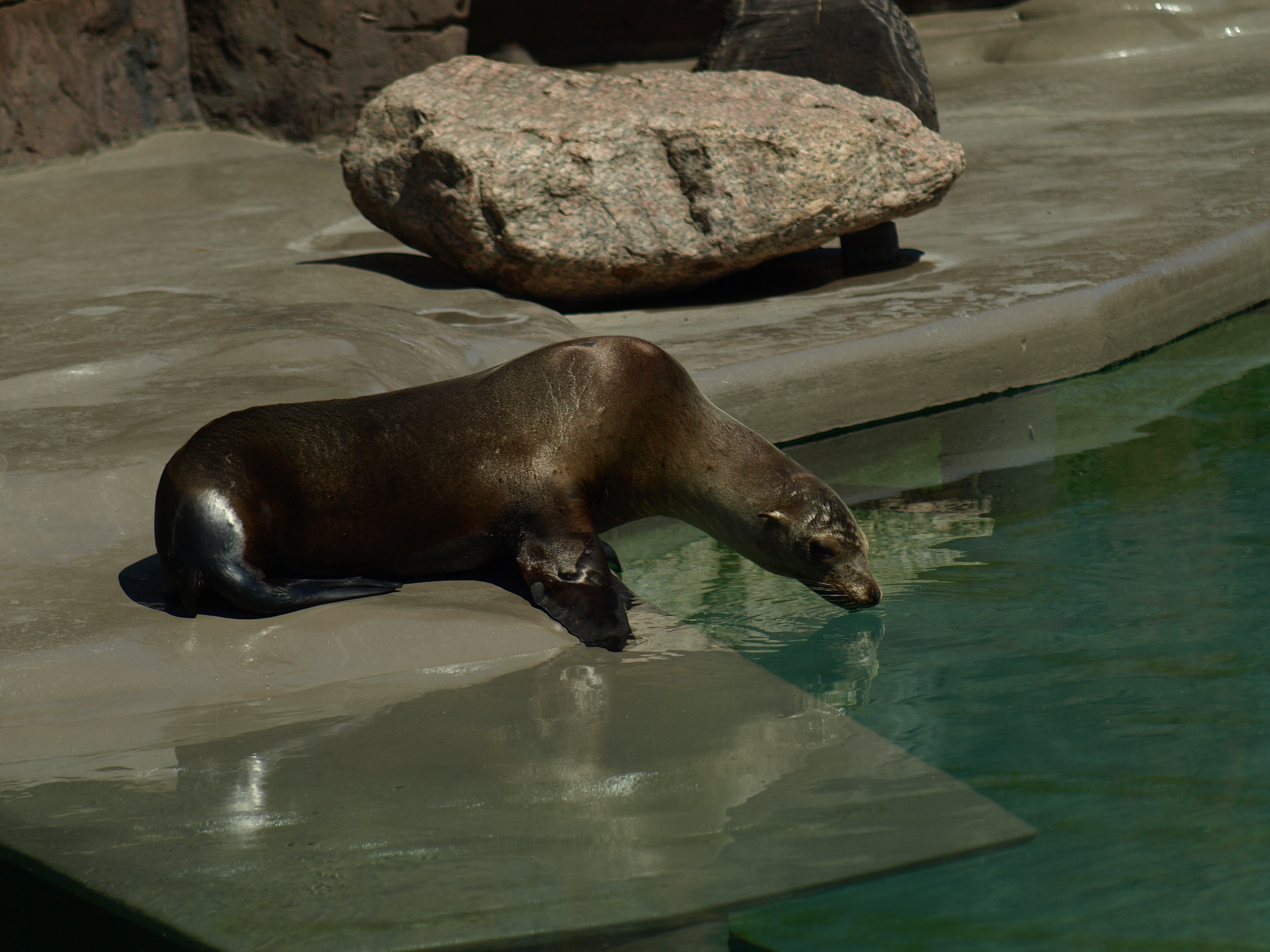 California Sea Lion (Zalophus californianus) from Zoo in Opole, Poland.